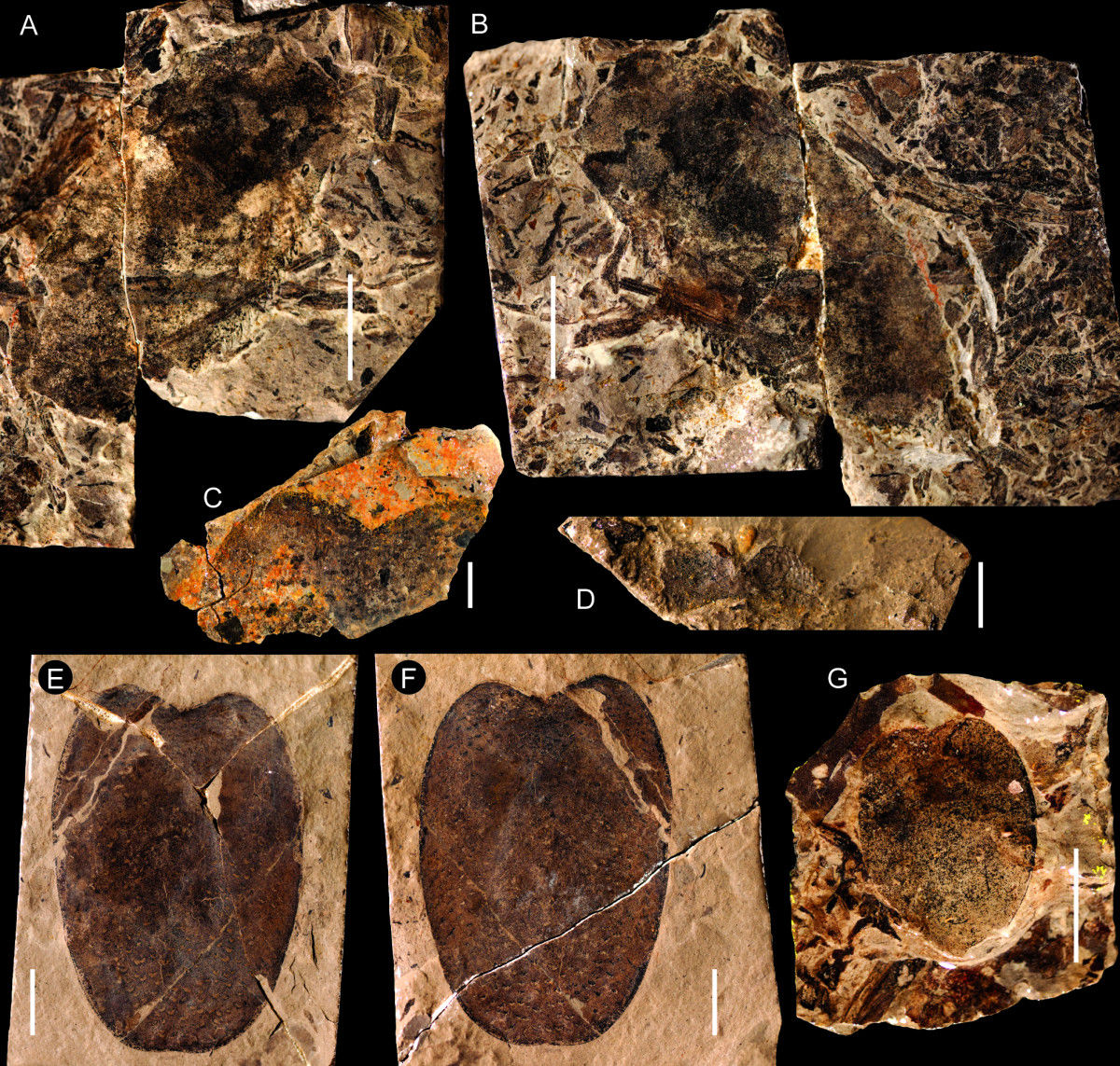 Jaekelopterus howelli. Appendage VI and metastoma specimens. A: FMNH PE 61156, paddle. B: Counterpart to FMNH PE 61156. C: FMNH PE 61169, anterior of metastoma. D: FMNH PE 61175, anterior of metastoma. E: FMNH PE 61153, metastoma. F: Counterpart to FMNH PE 61153. G: FMNH PE 61165, metastoma. Scale bars = 10 mm.